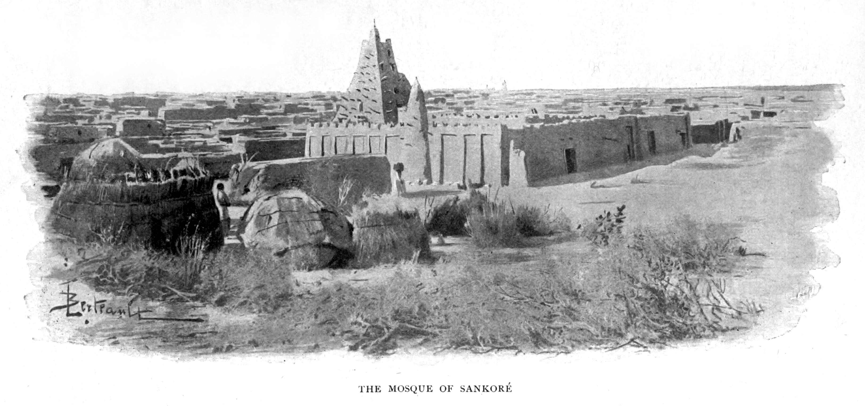 The Sankoré Mosque, Timbuktu, Mali.